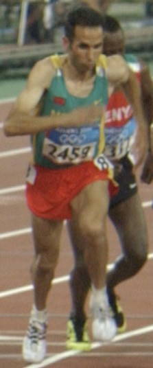 Mohammed Amyn at the 2004 Olympics.